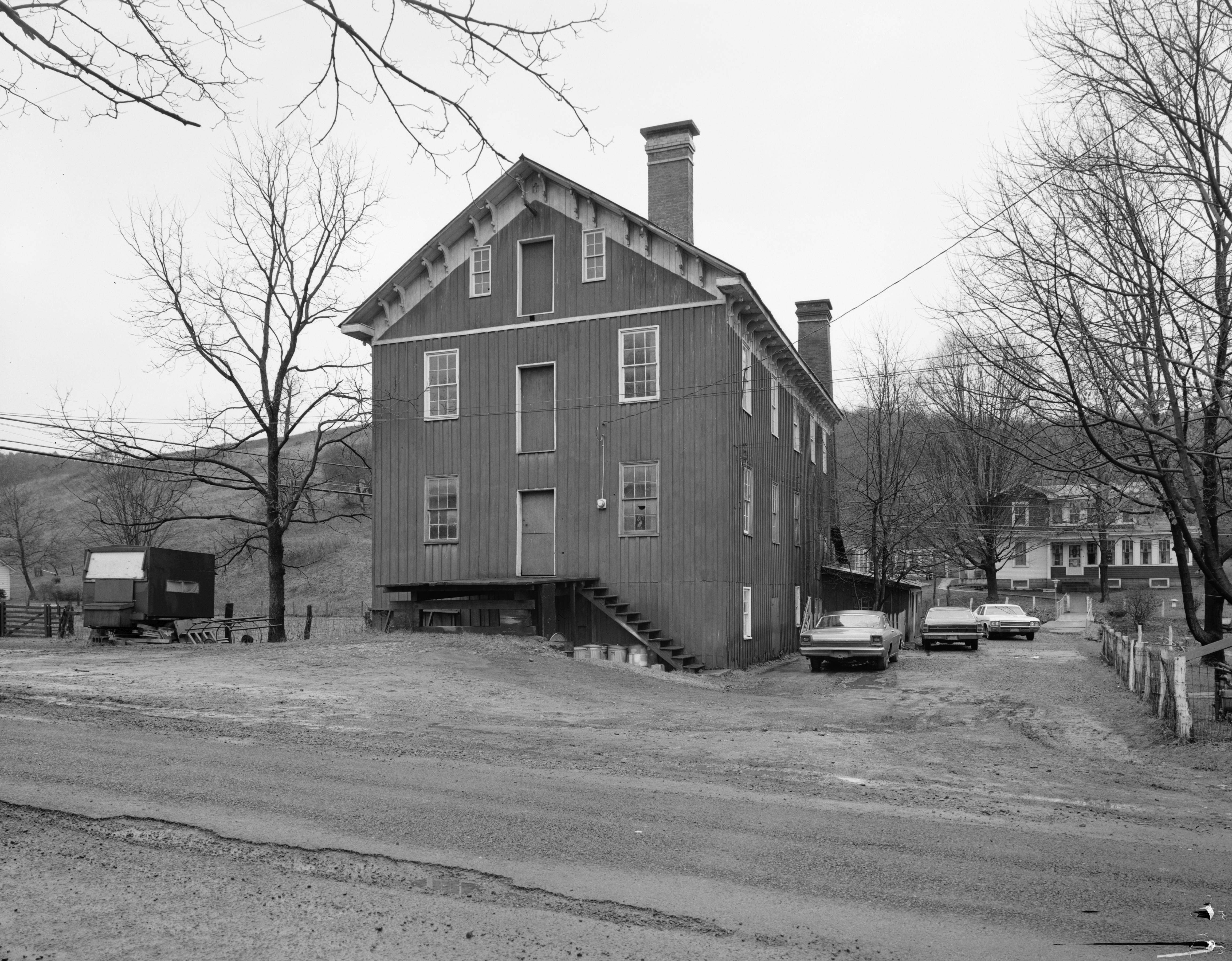 Front of the Easton Roller Mill, located on County Route 119/17 near Morgantown in Monongalia County, West Virginia, United States. Built in 1894, it is listed on the National Register of Historic Places.